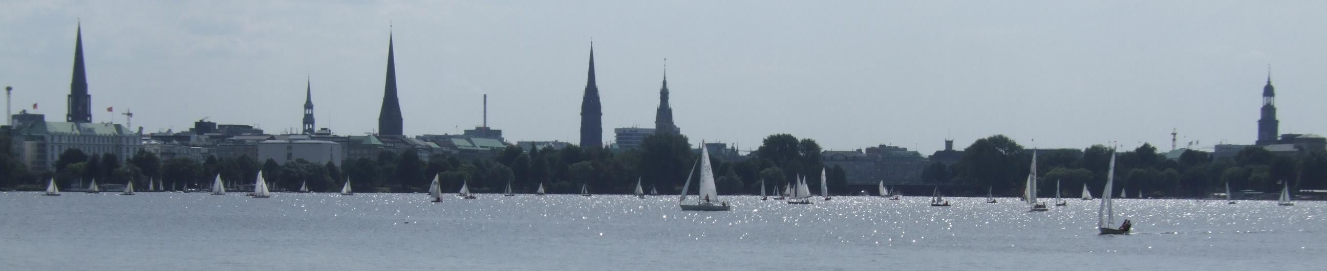 The five Hauptkirchen (main churches) seen from the Außenalster